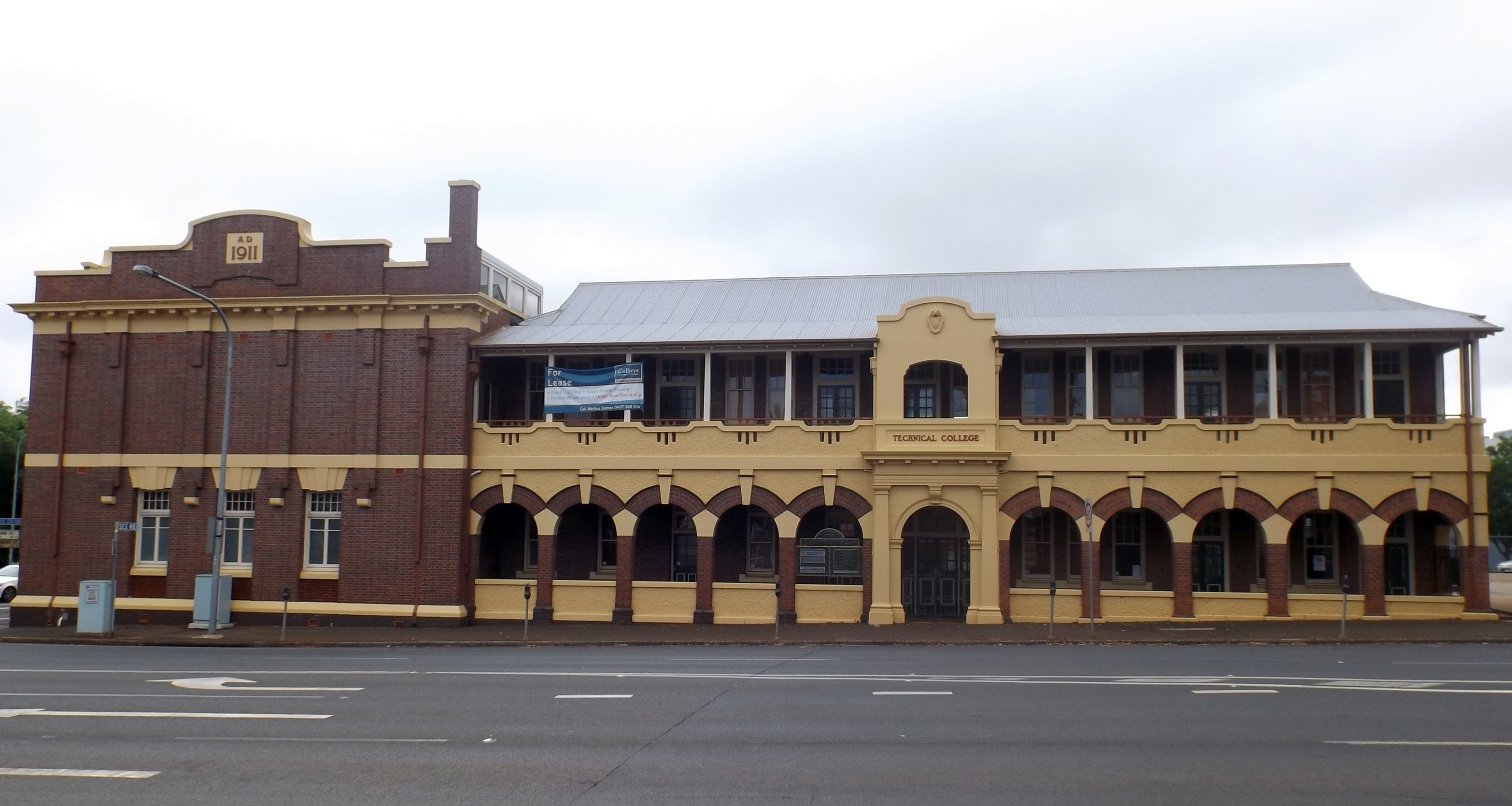 Photo of former Toowoomba Technical College on Hume Street in Toowoomba City, Queensland, Australia.